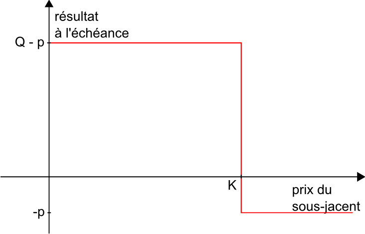 Profil de résultat d'un put binaire - Pay off of a binary put